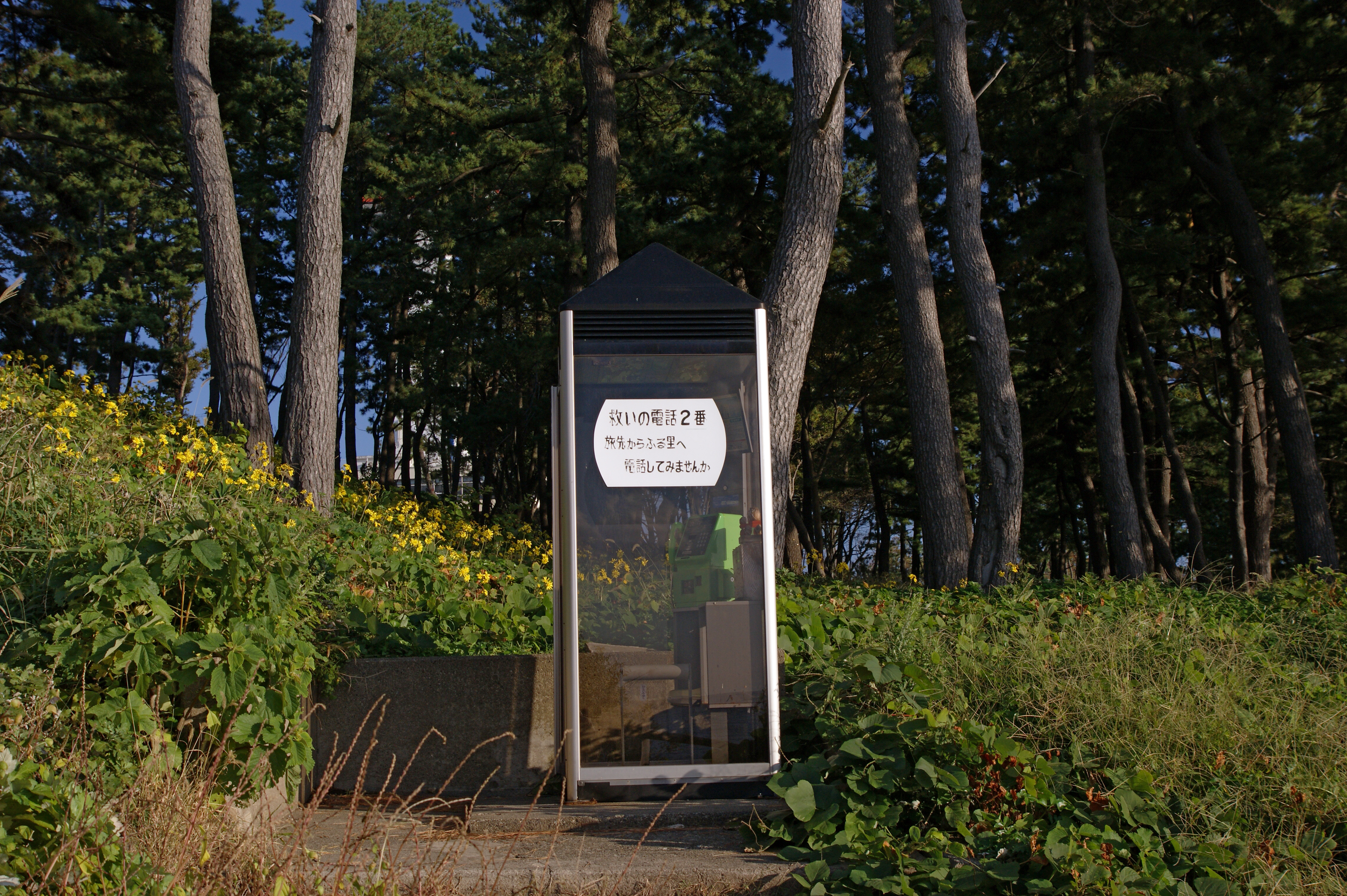 Tojinbo, Sakai, Fukui prefecture, Japan